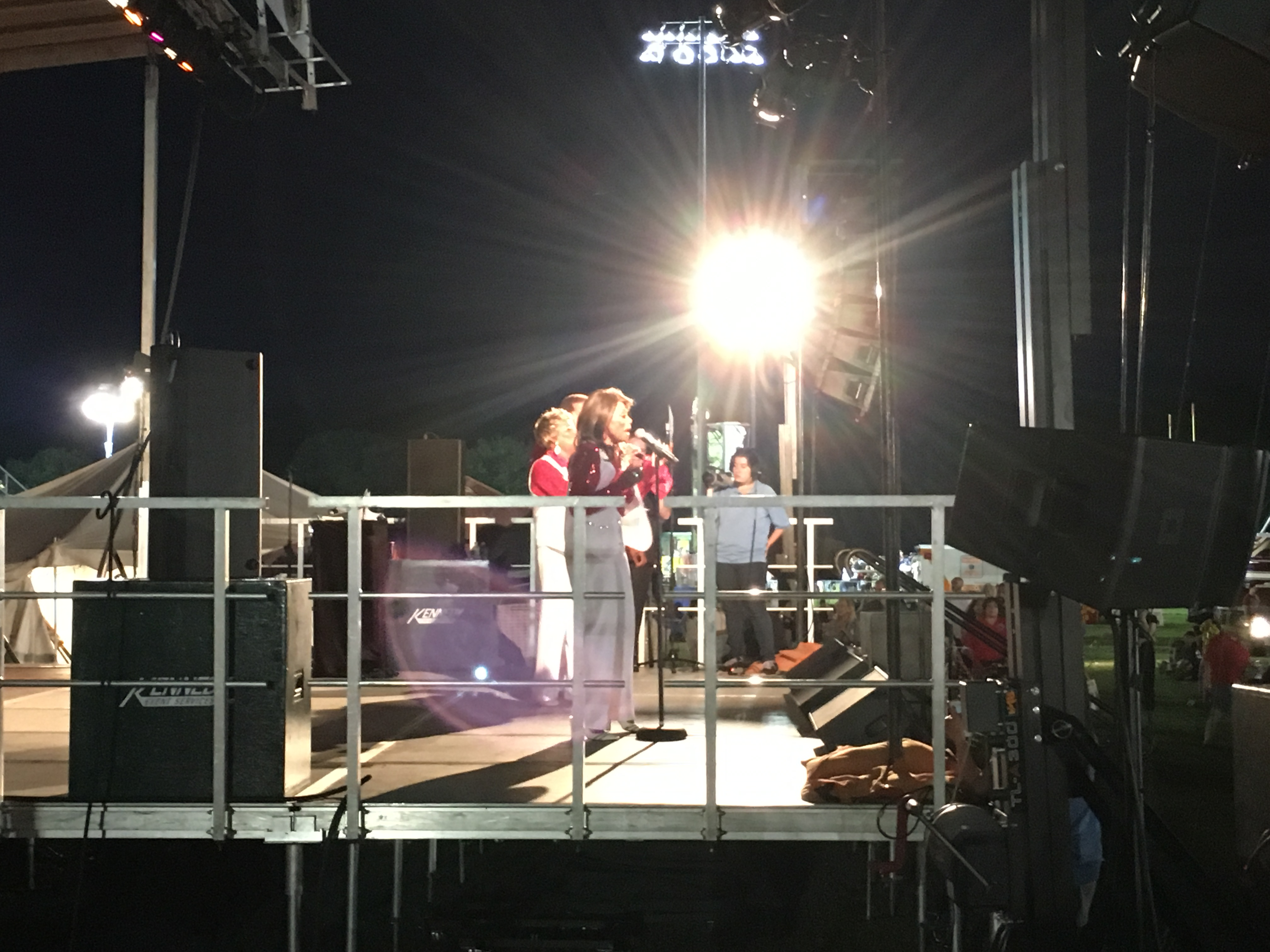 Florence LaRue and the 5th Dimension playing a free outdoor concert as part of the Manalapan Day 2018 event at the Manalapan Recreation Center in Manalapan, New Jersey. Here LaRue, the only original member in this iteration of the group, is singing the lead on the 1970 hit "One Less Bell to Answer".